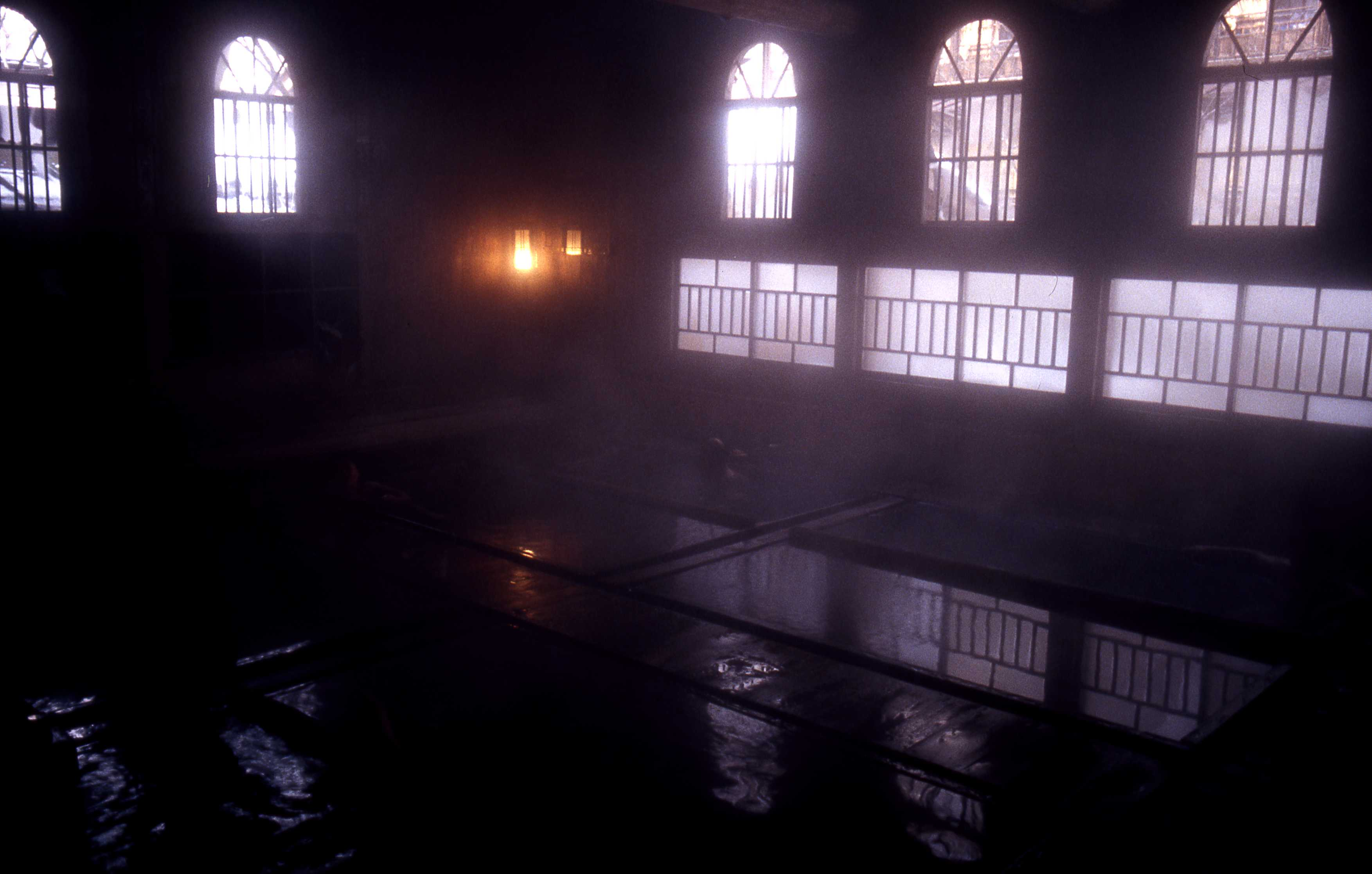 Hōshi Onsen in Minakami, Gunma, Japan.